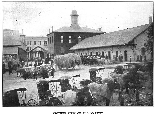 Berlin 'to-day' -- Kitchener-market, centennial number in celebration of the Old boys' and girls' reunion, August 6th, 7th, 8th, 1906.